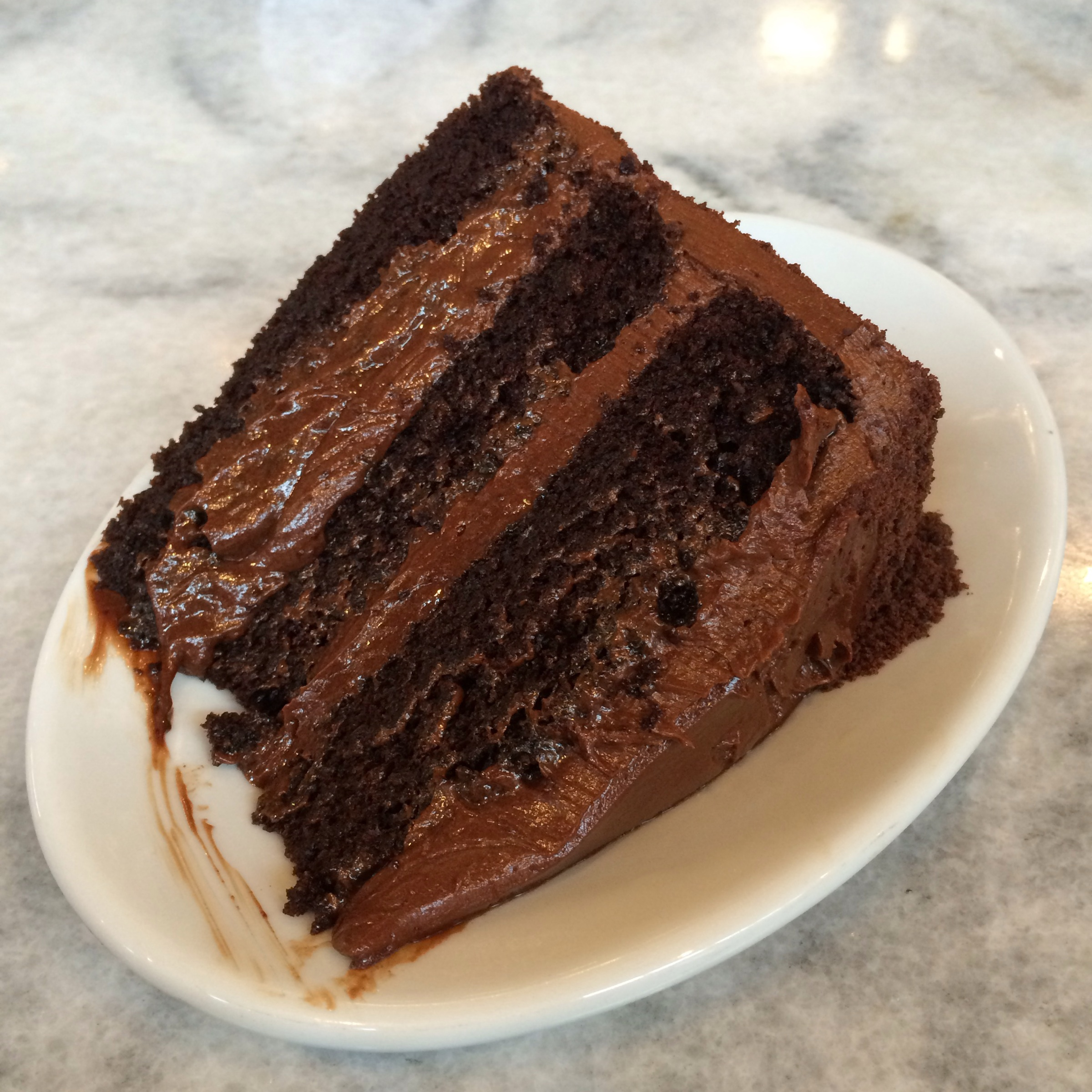 Blackout cake, sometimes called Brooklyn Blackout cake, is an American chocolate cake filled with chocolate pudding and chocolate cake crumbs, and frosted with chocolate icing.